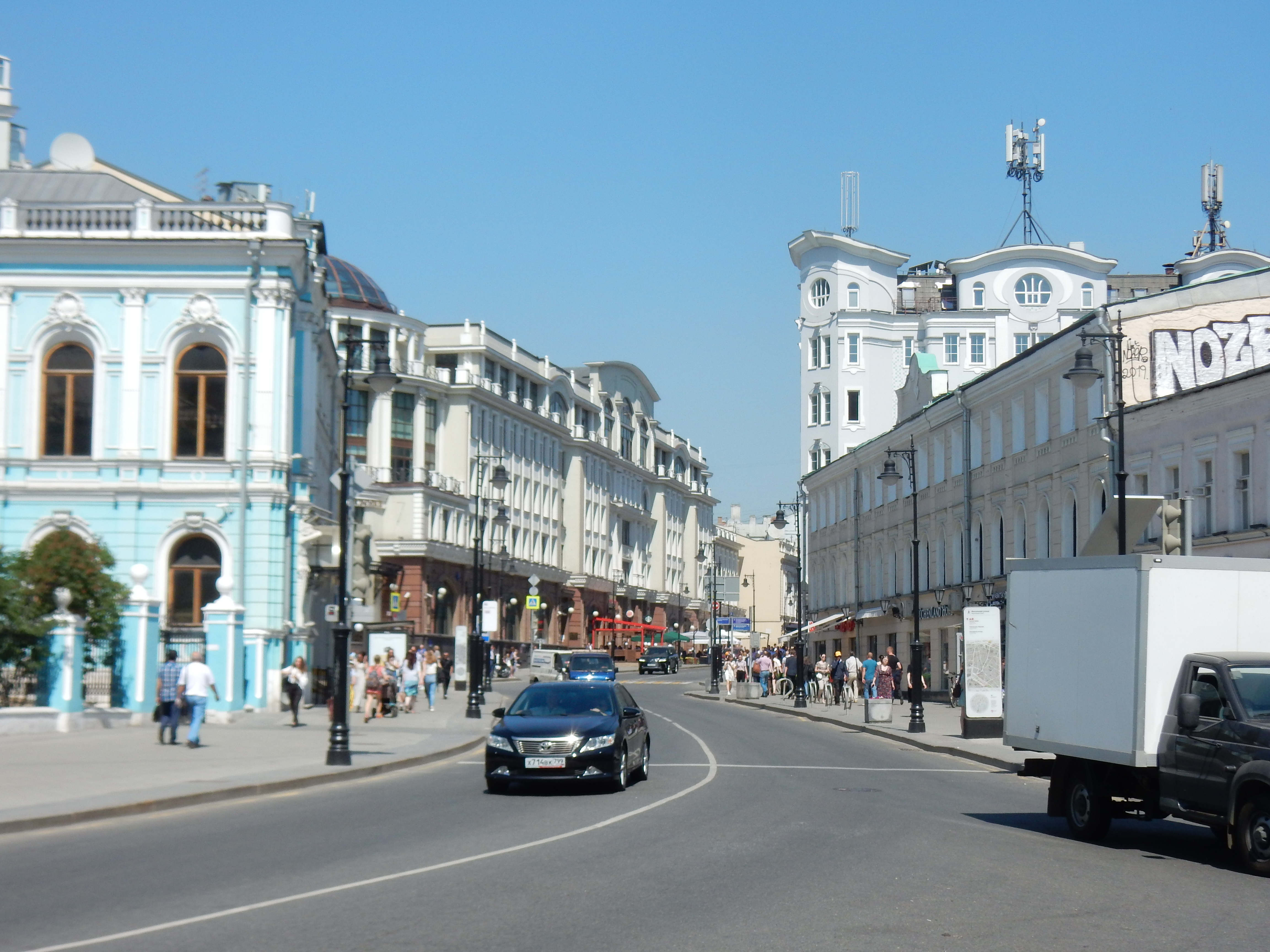 Moscow, view of Myasnitskaya Street. June 2019.